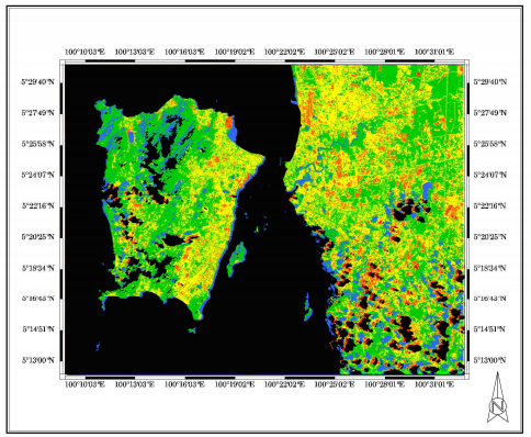 Thermographic image